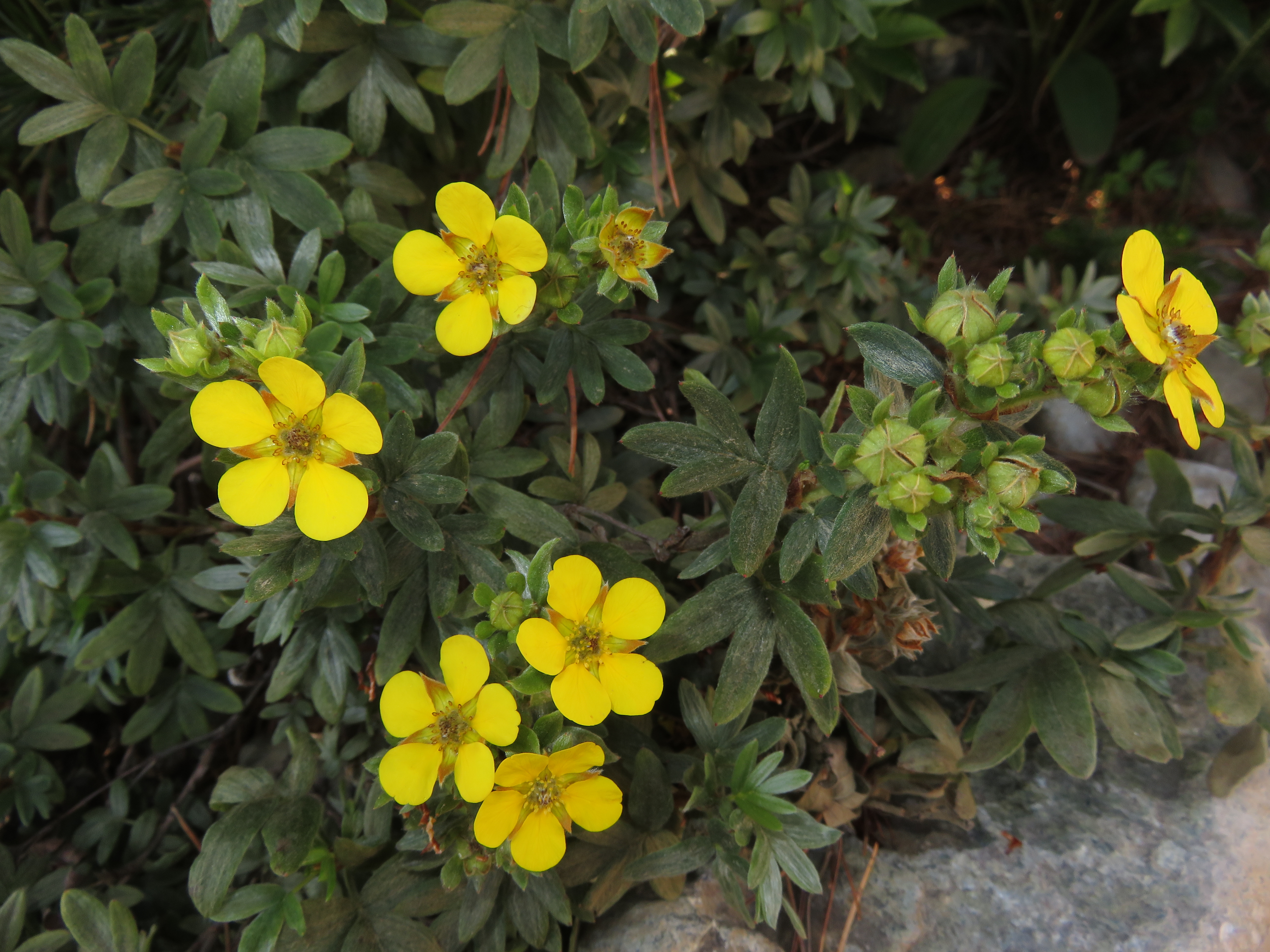 Dasiphora fruticosa, Mount Hayachine, Iwate pref., Japan